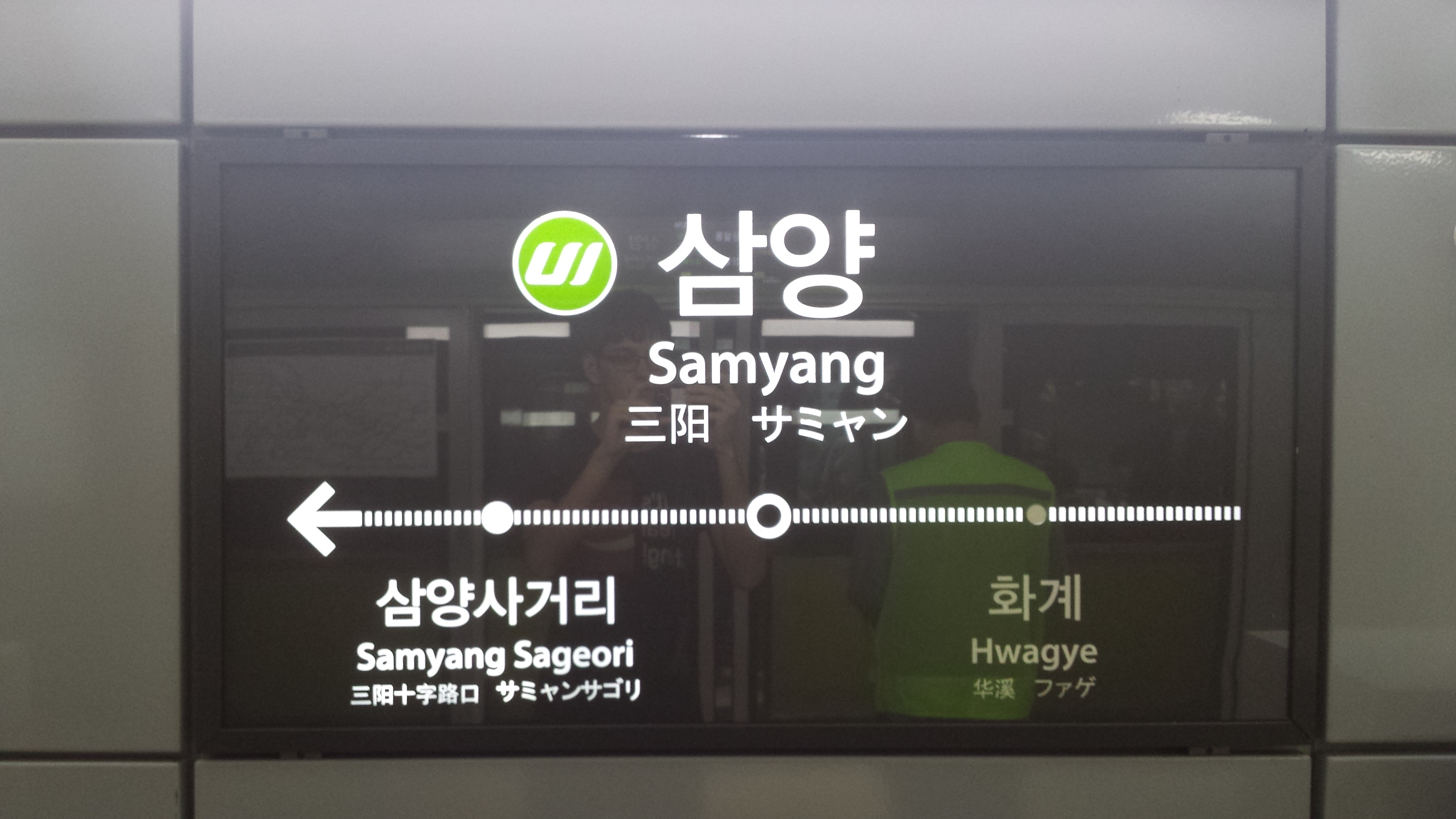 Samyang station sign